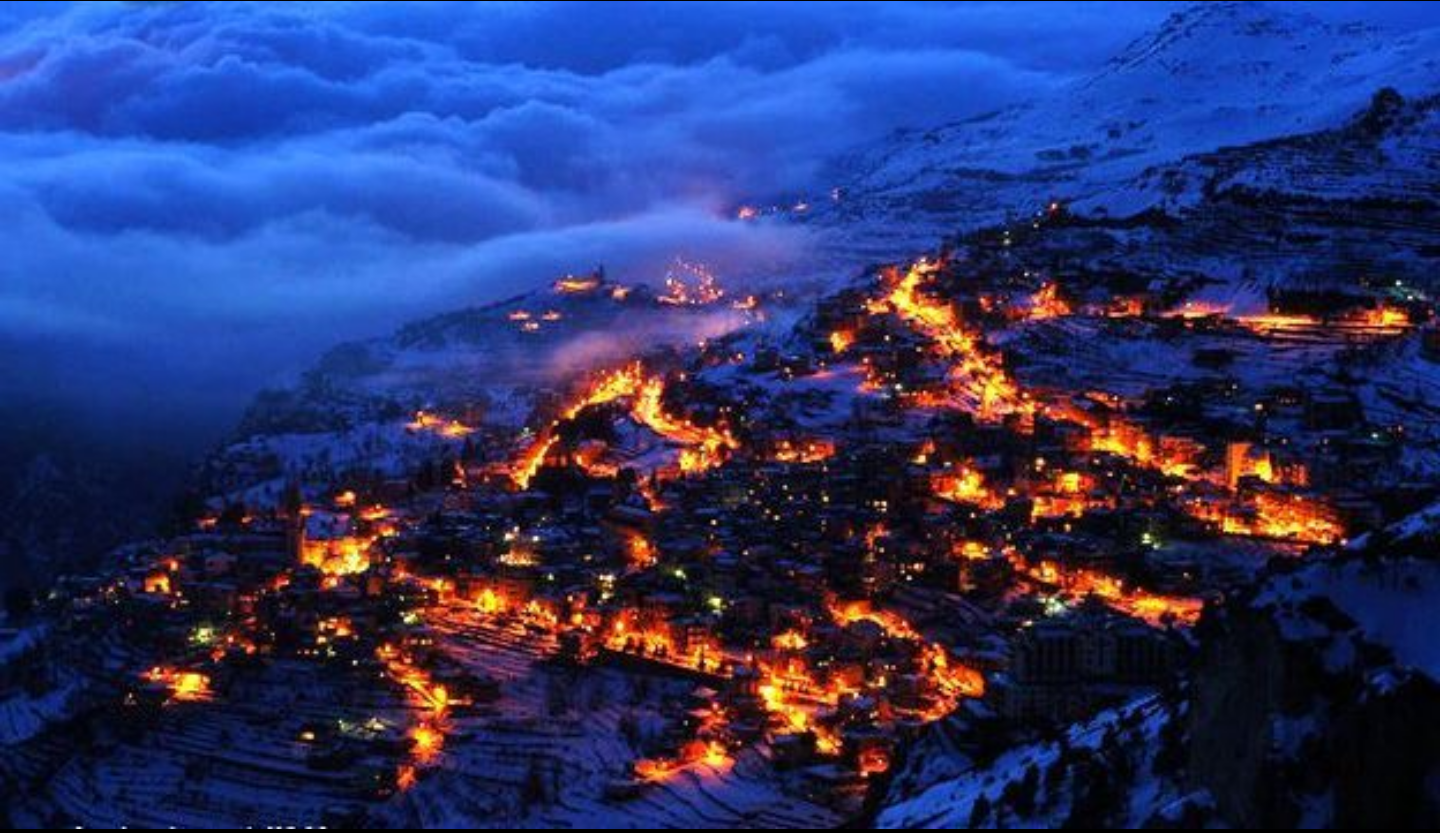 bsharri06